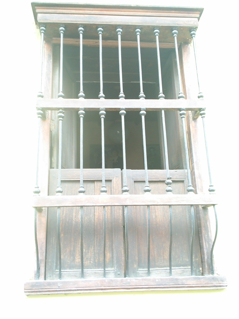 Traditional Window